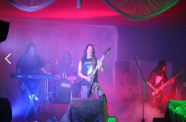 A performance from Atulyam, an annual cultural fest of NIT Arunachal